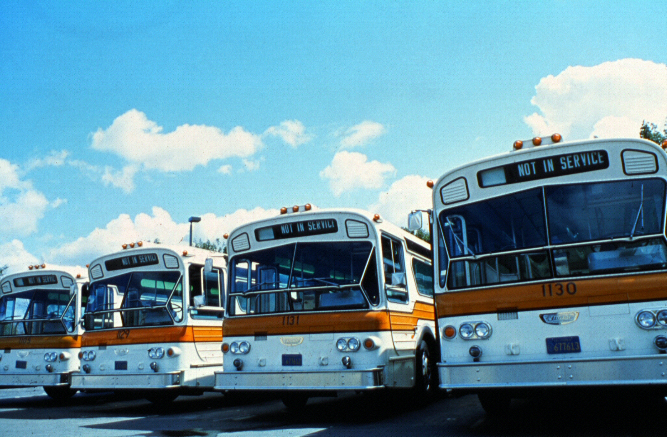 Orange County Transit District busses. There are no known copyright restrictions on this image. All future uses of this photo should include the courtesy line, "Photo courtesy Orange County Archives." Comments are welcome after reading our Comment Policy . (PIO24)